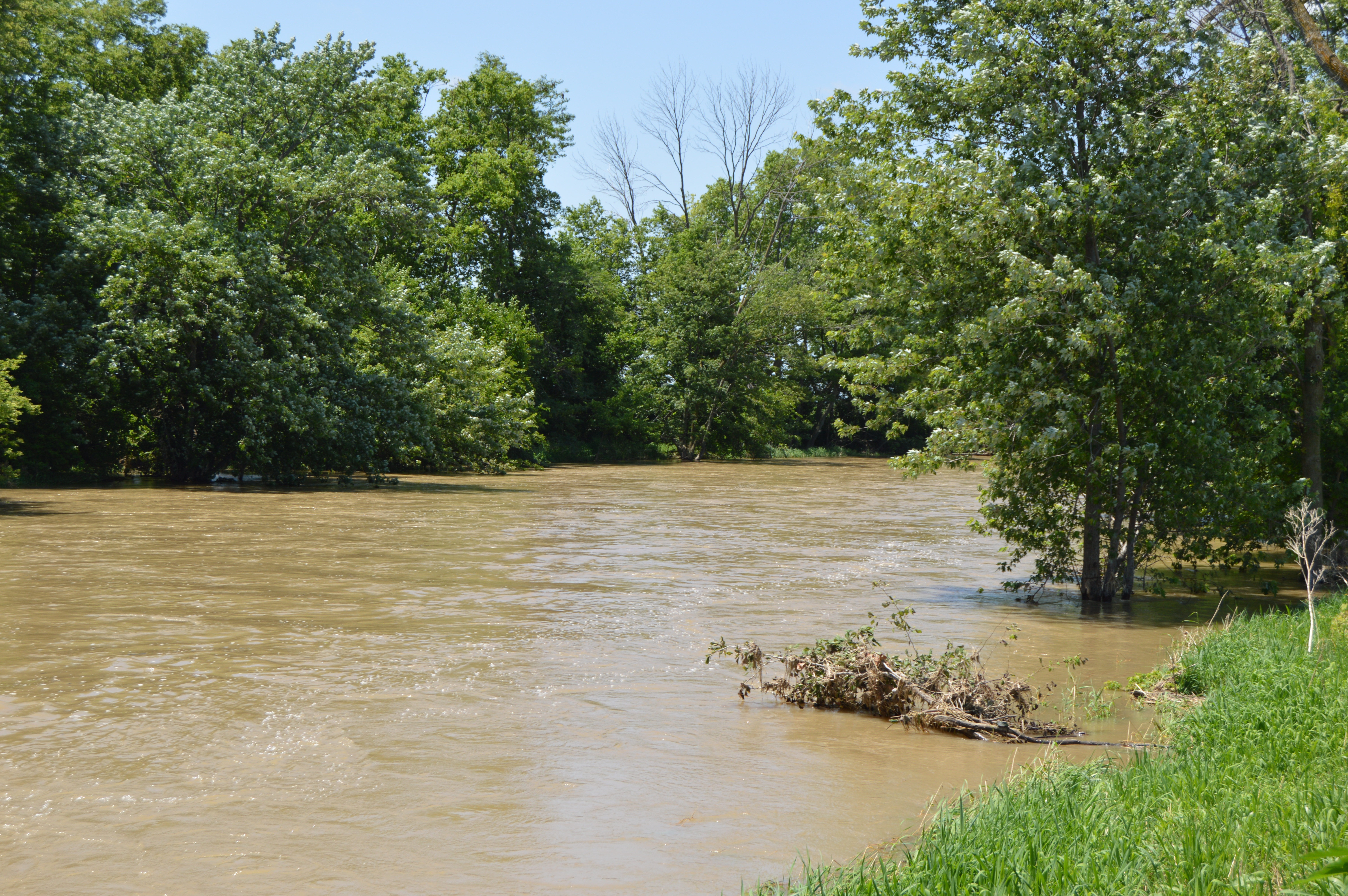 Looking northwest (downstream) along the Ottawa River from State Route 189 at Rimer in Sugar Creek Township, Putnam County, Ohio, United States. The river is experiencing flooding following weeks of sustained rainfall.